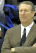 Boise State University men's basketball coach Greg Graham in the Dec. 22, 2008 game against the University of San Diego.